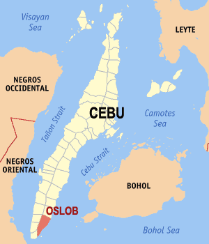 Map of Cebu showing the location of Oslob